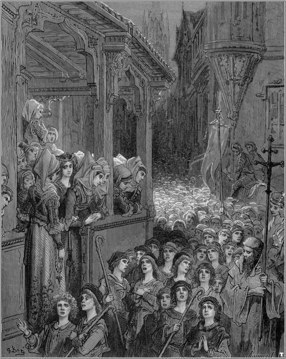 The Childrens Crusade